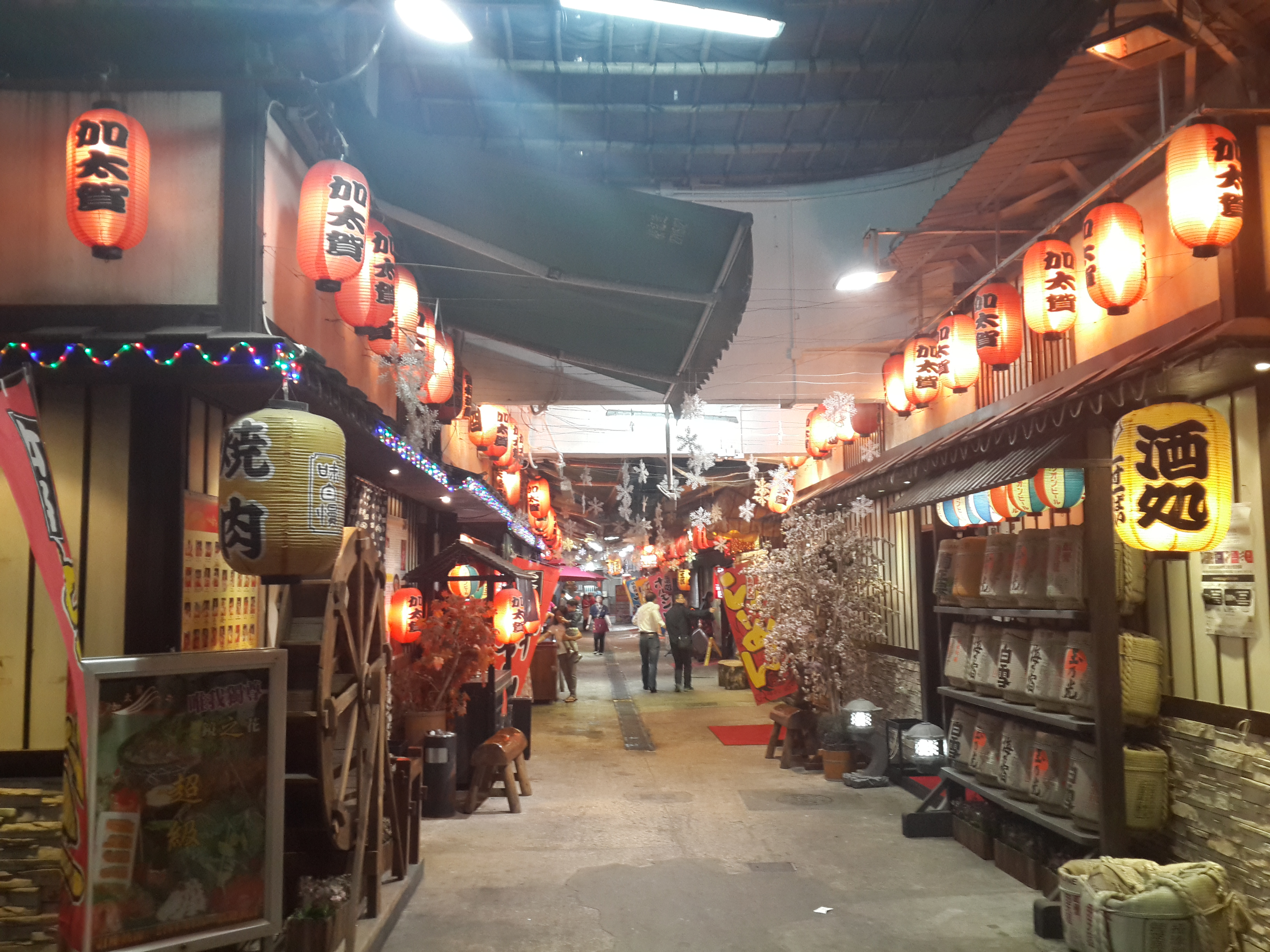 Sung Kit Street